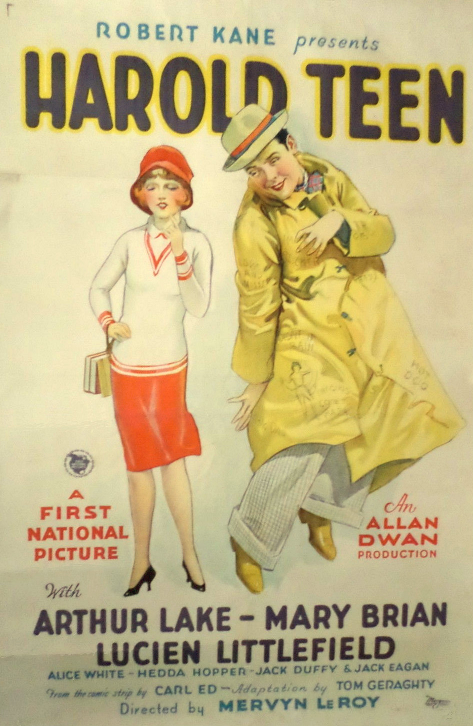 Poster from the 1928 film Harold Teen.